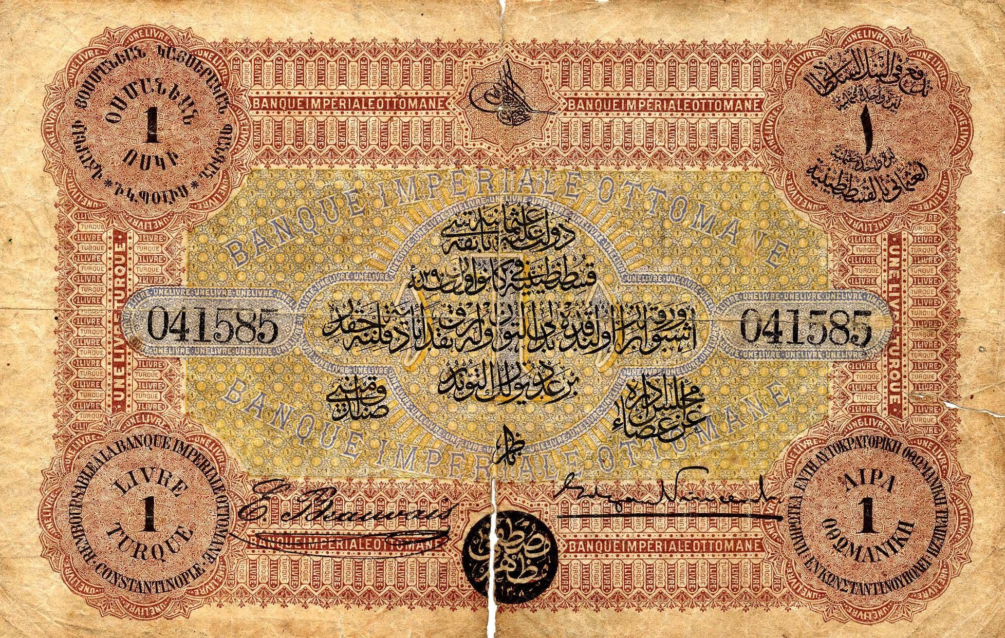 An “Ottomanist” banknote A new banknote, first issued on 15 July 1880 by the Ottoman Bank, was rather unique for a number of reasons. First of all, although it was issued in 1880 during the fourth year of the reign of Sultan Abdülhamid II, it bore the date of 1875, and carried the tuğra (monogram) of Sultan Abdülaziz, who had been dethroned in 1876. It appears that the banknote was prepared and printed in 1875 but had been on hold since, due to the financial crisis at the time. The most interesting aspect of the banknote was that it carried inscriptions in five languages: Turkish and French, as usual, but also Greek, Armenian and Arabic. The multi-lingualism, in addition to the use of the Gregorian calendar rather than the Islamic calendar, testified to the Ottomanism of the time. 1 lira note sealed by Mustafa Mazhar and signed by Beauvais and Vincent